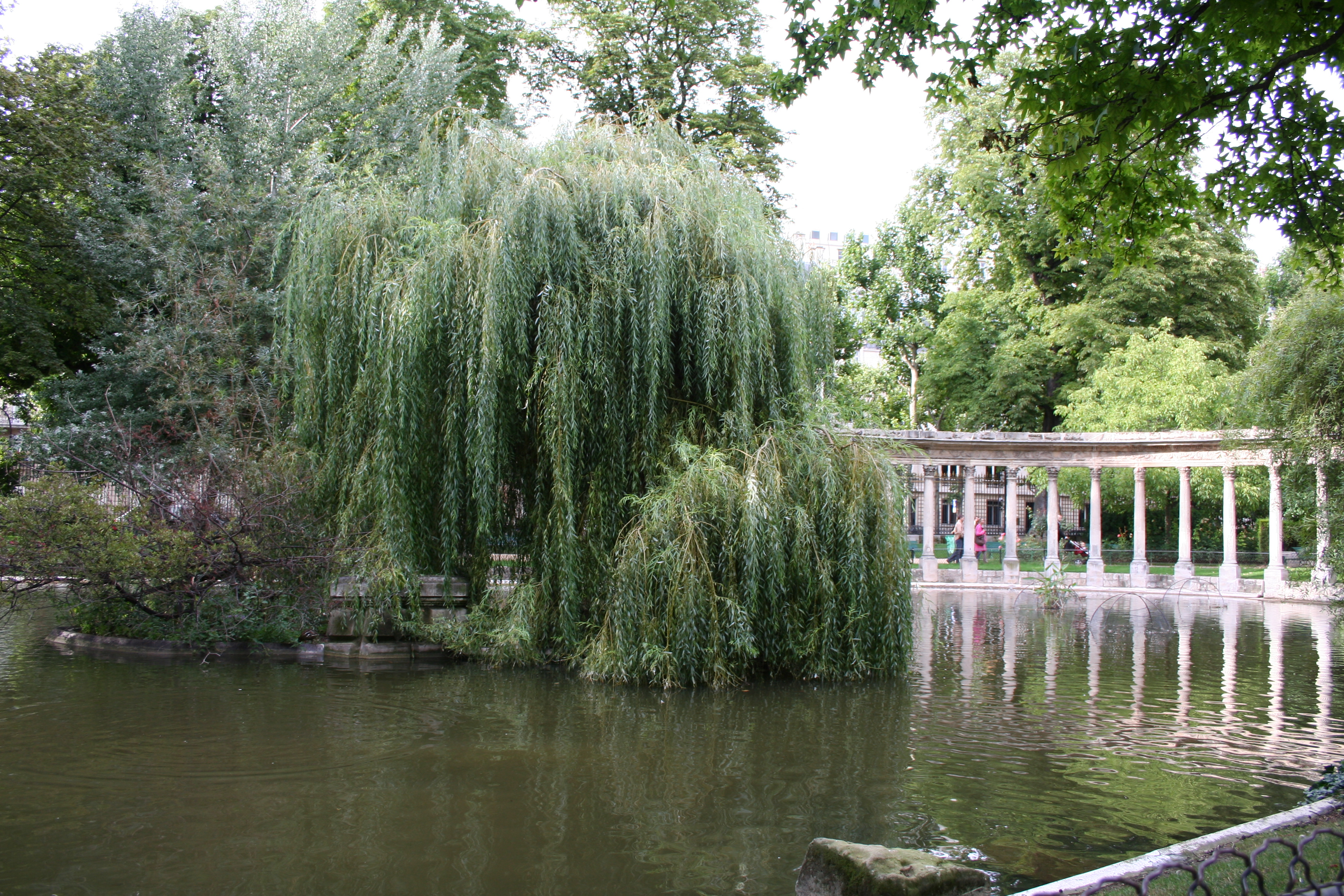 Parc Monceau (Paris, France)